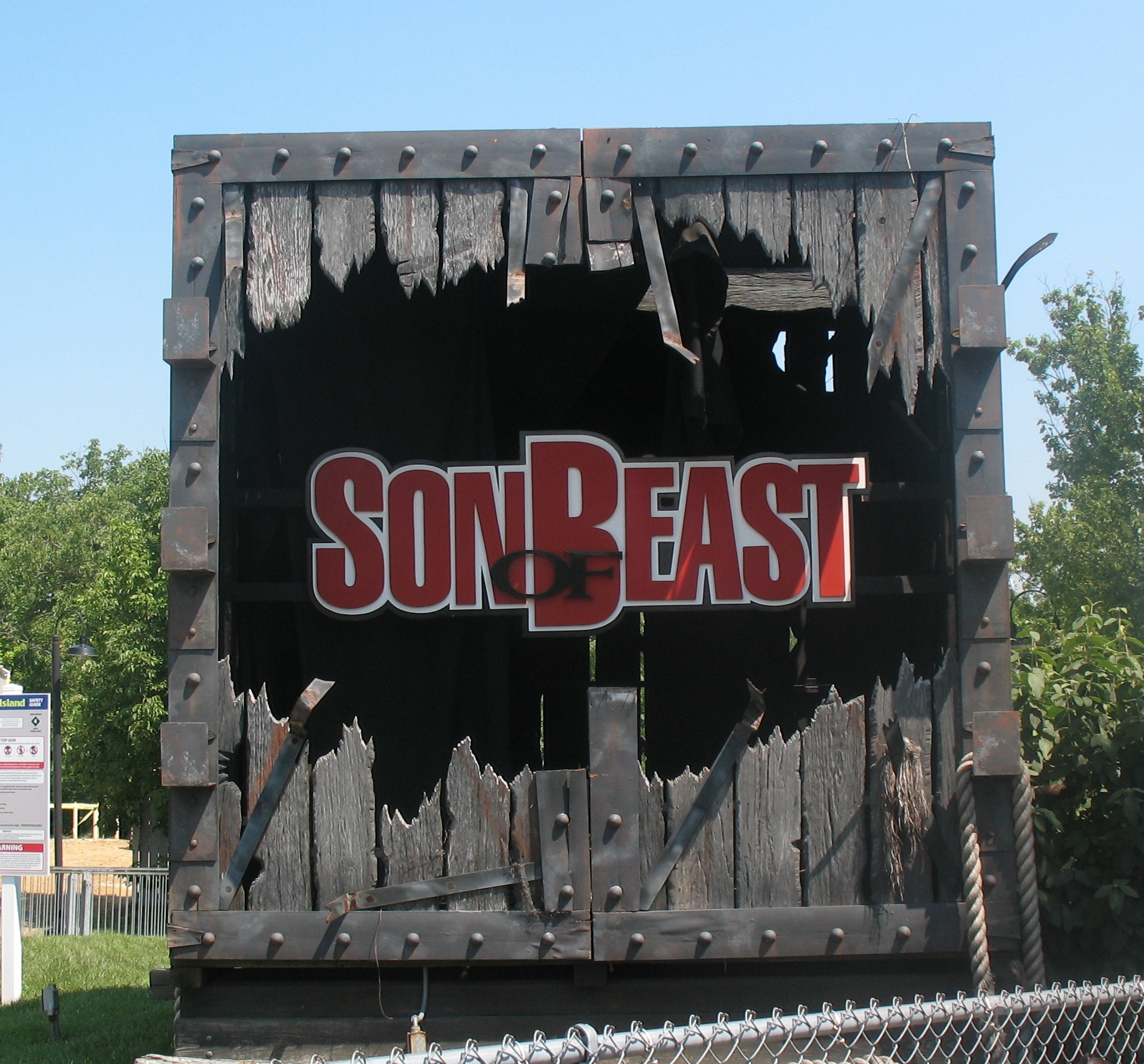 Entrance to Son of Beast at Kings Island.